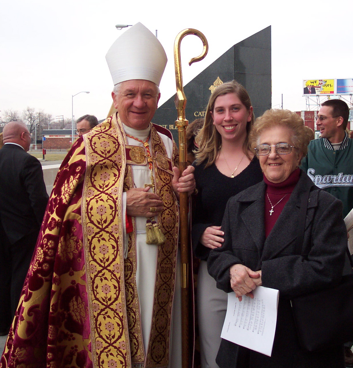 Photo of Cardinal Adam Maida of the Roman Catholic Archbishop of Detroit